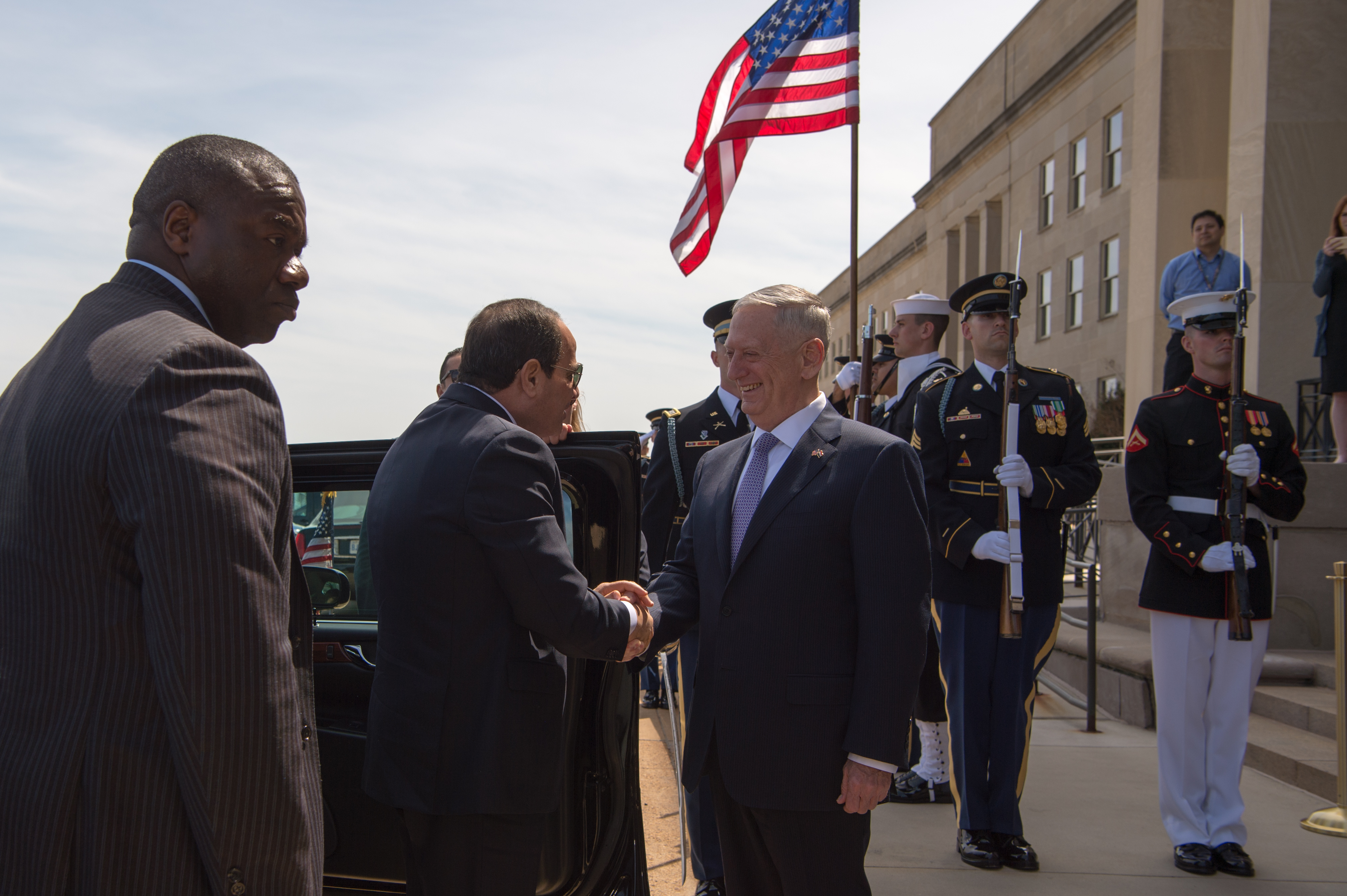 Defense Secretary Jim Mattis meets with Egypt’s President Abdul Fattah al-Sisi during a meeting held at the Pentagon in Washington, D.C., April 5, 2017. (DOD photo by U.S. Army Sgt. Amber I. Smith)